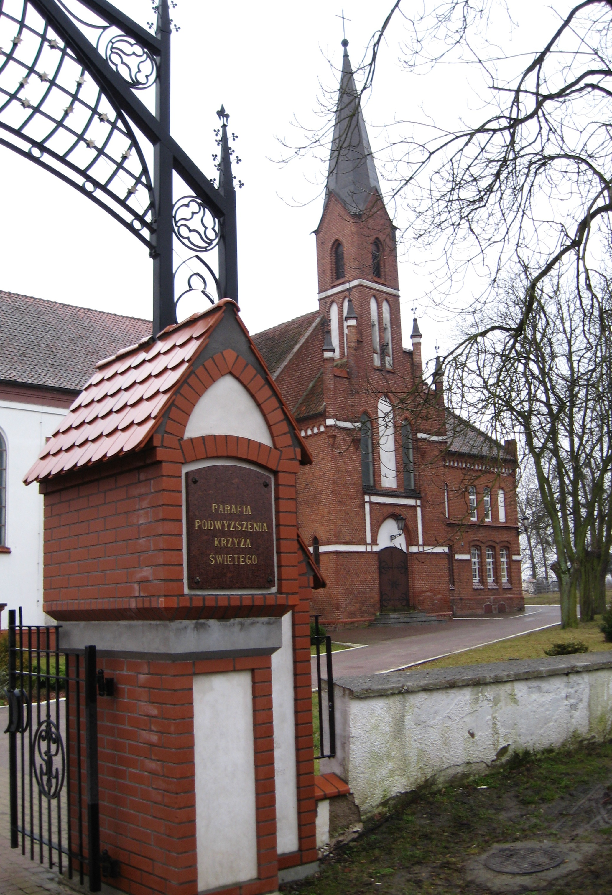 Church in Korsze, Poland.